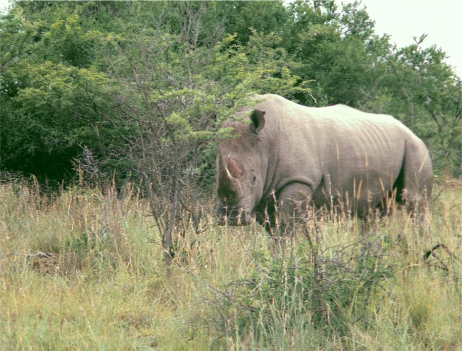 A White Rhinoceros in Mpofu Nature Reserve, Eastern Cape Province, South Africa.